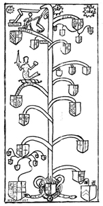 Family tree sprouting from a heraldic shield from a paper describing the remains of the memorial stones to Sir Thomas Cusack given in 1999 to Trinity College Dublin Ref MS11096 Box 98